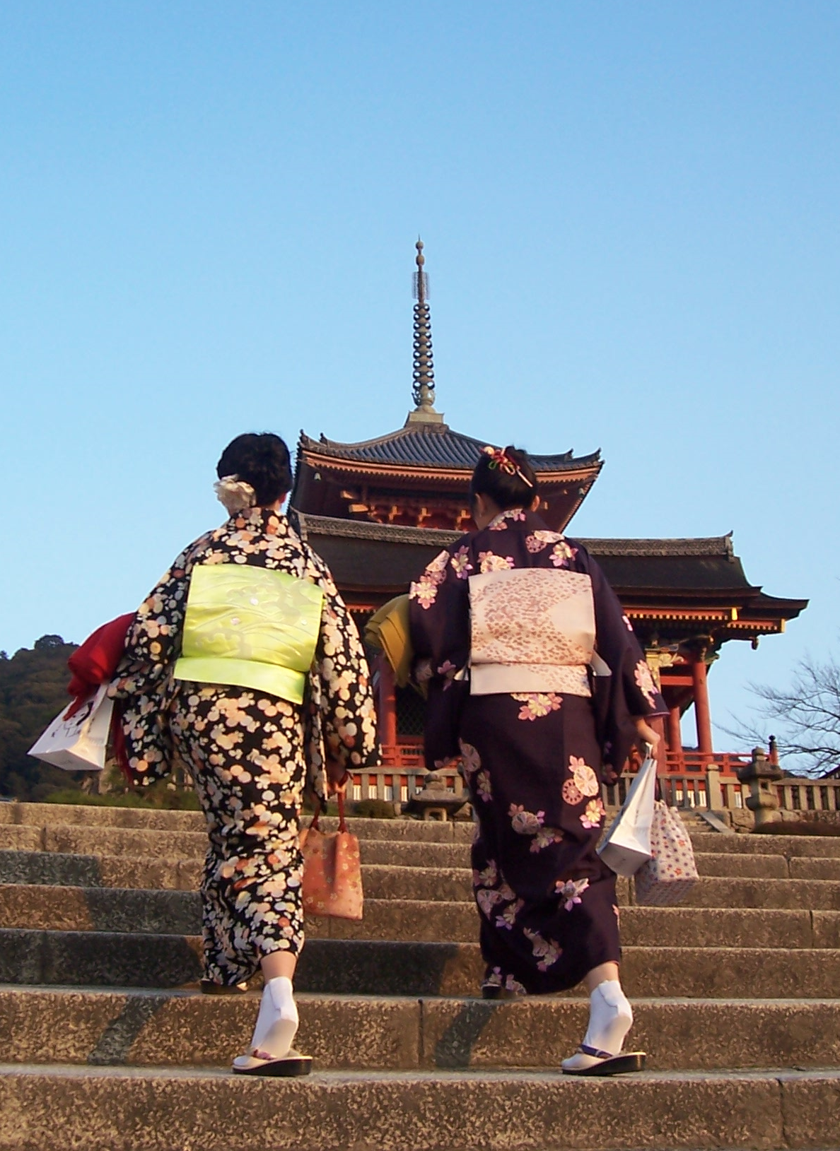 young women wearing kimono in Kyoto in February 2007